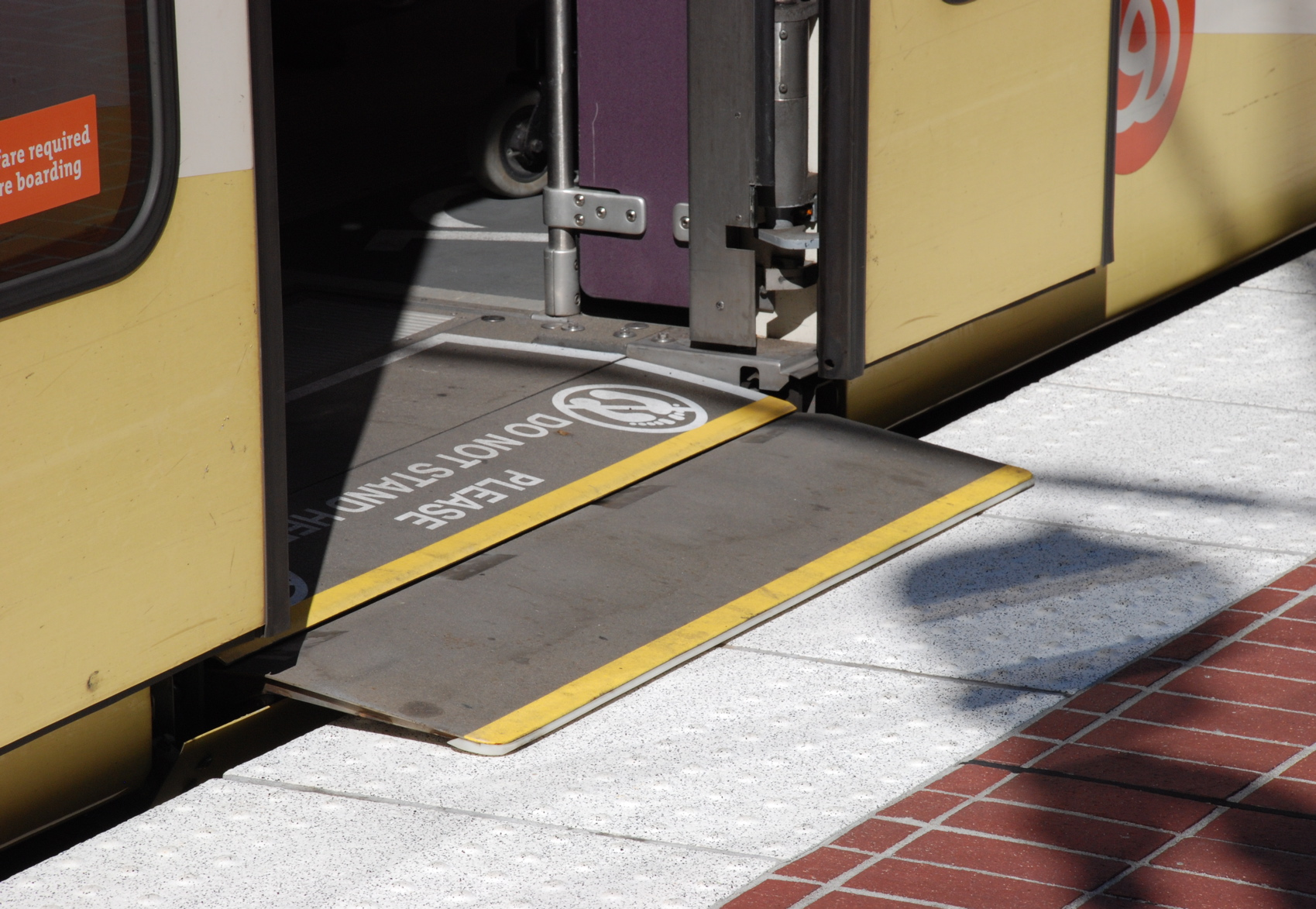 An extended bridgeplate, or ramp, in the doorway of a low-floor light rail vehicle (LRV), on the MAX system in Portland, Oregon. The car in this particular photo is a 2003-built Siemens SD660.